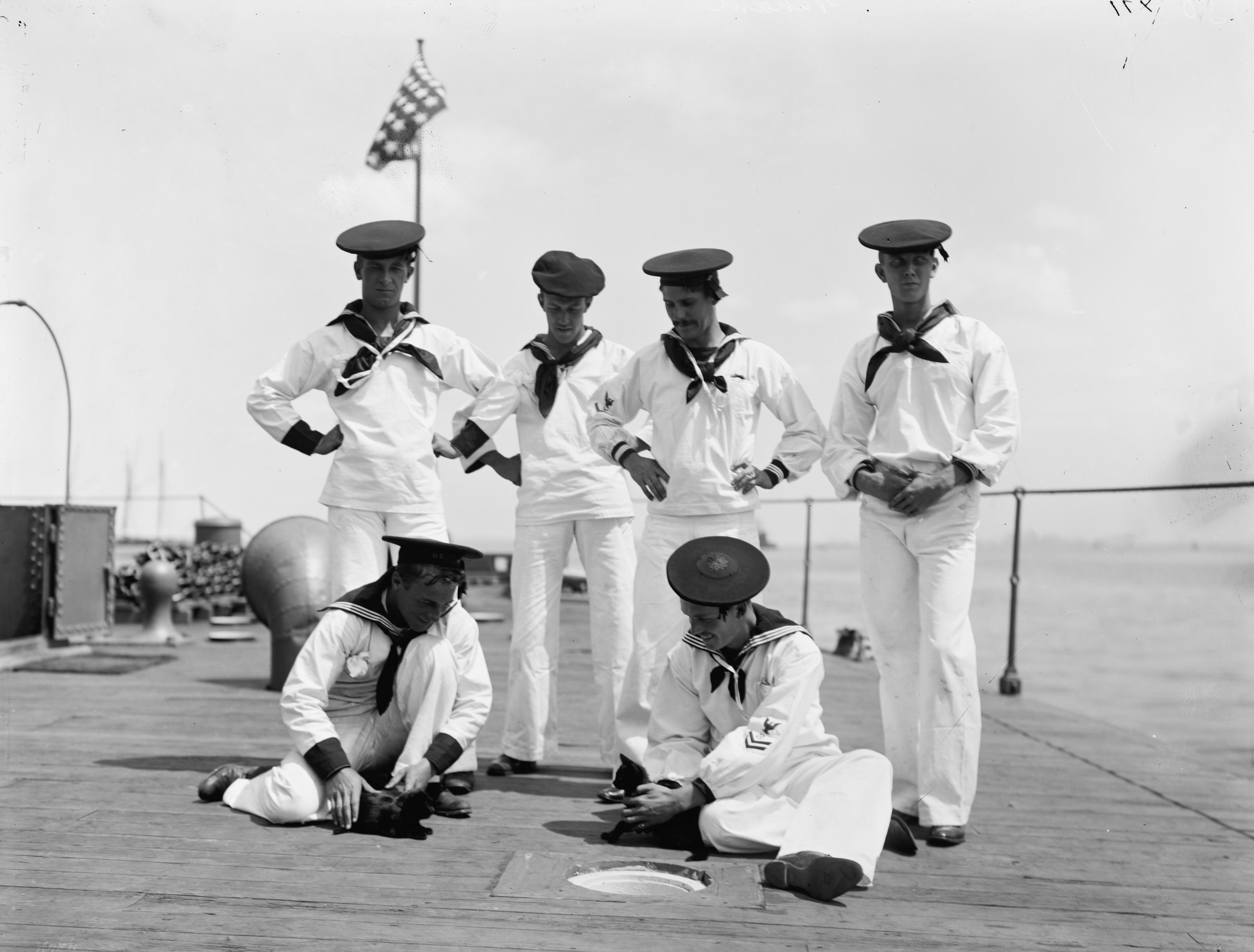 LC-DIG-DET-4a13938: US Navy Passaic class monitor, USS Nahant, sailors and ship mascots (cats), 1898. During the time of this photograph, she was placed back in commission and performed coastal defense duties in New York Harbor, returning to Philadelphia for lay up after the brief war. Photographed by Edward H. Hart, published by Detroit Publishing Company. (5/29/2015).